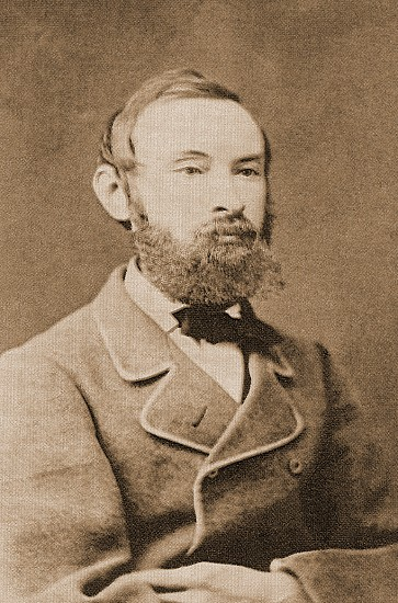 Picture showing Kalinowski before he entered the Carmelite order.